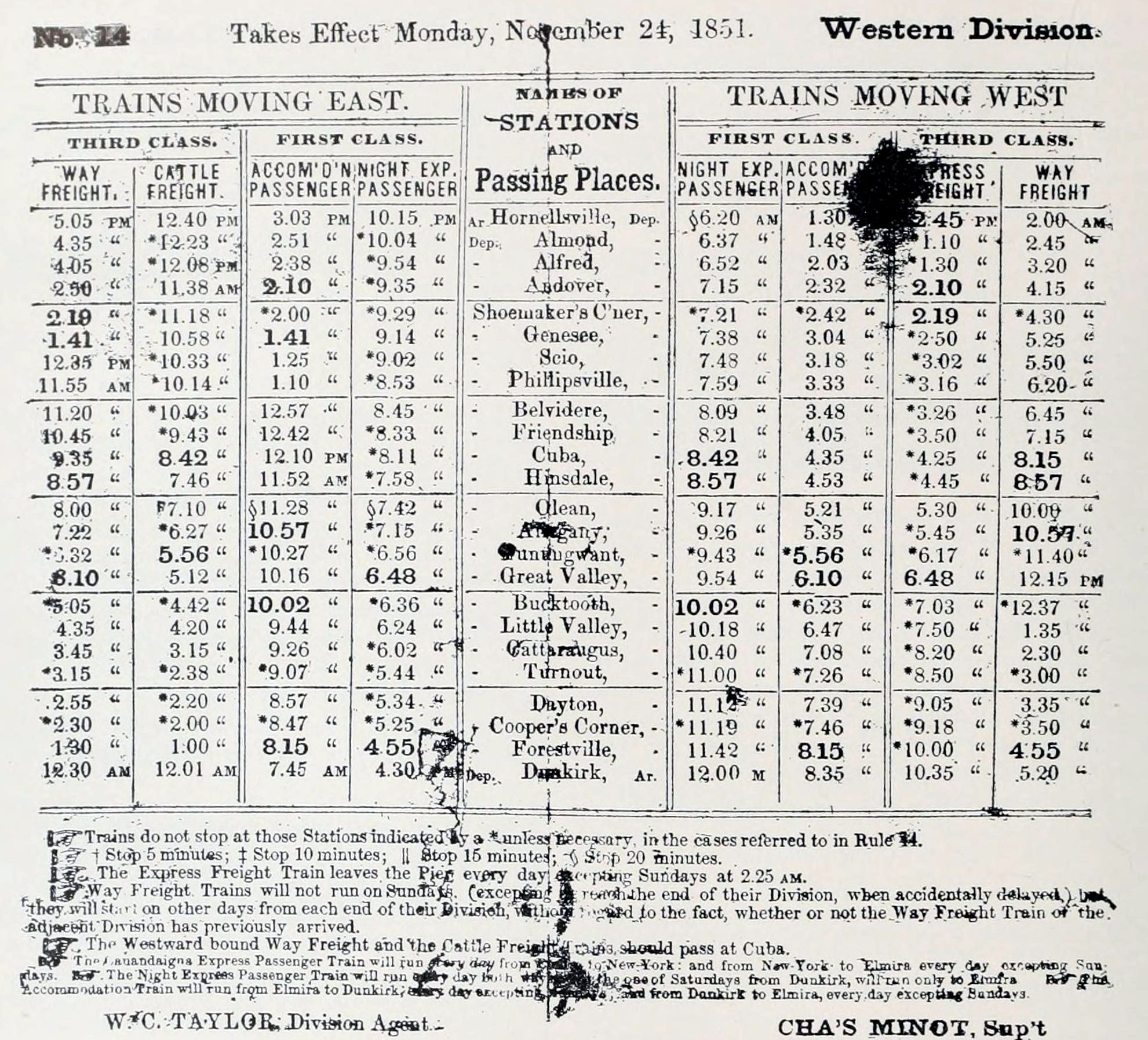 Time table, Erie Railroad 1851. Issued by Charles Minot.